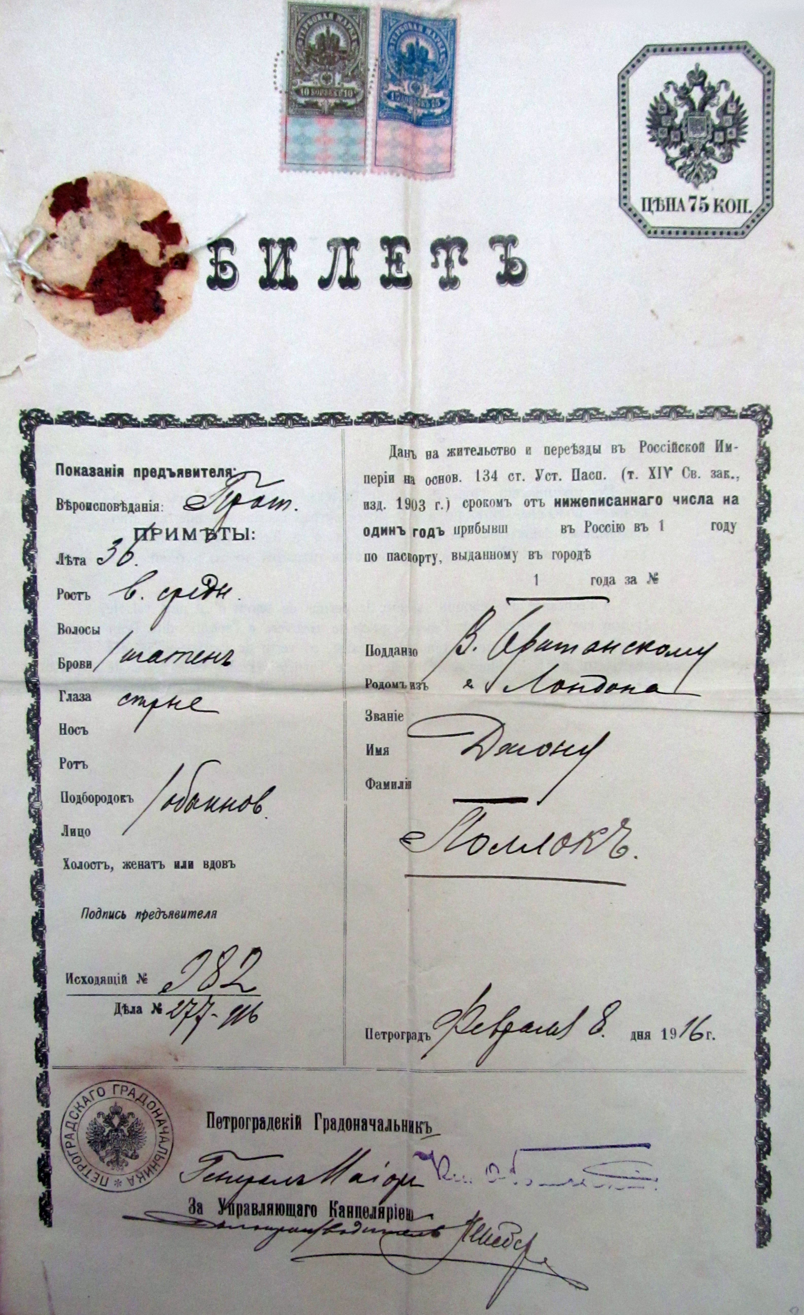 A travel visa, issued by Russian Empire to a British national, Sir John Pollock, 4th Baronet, in 1916.